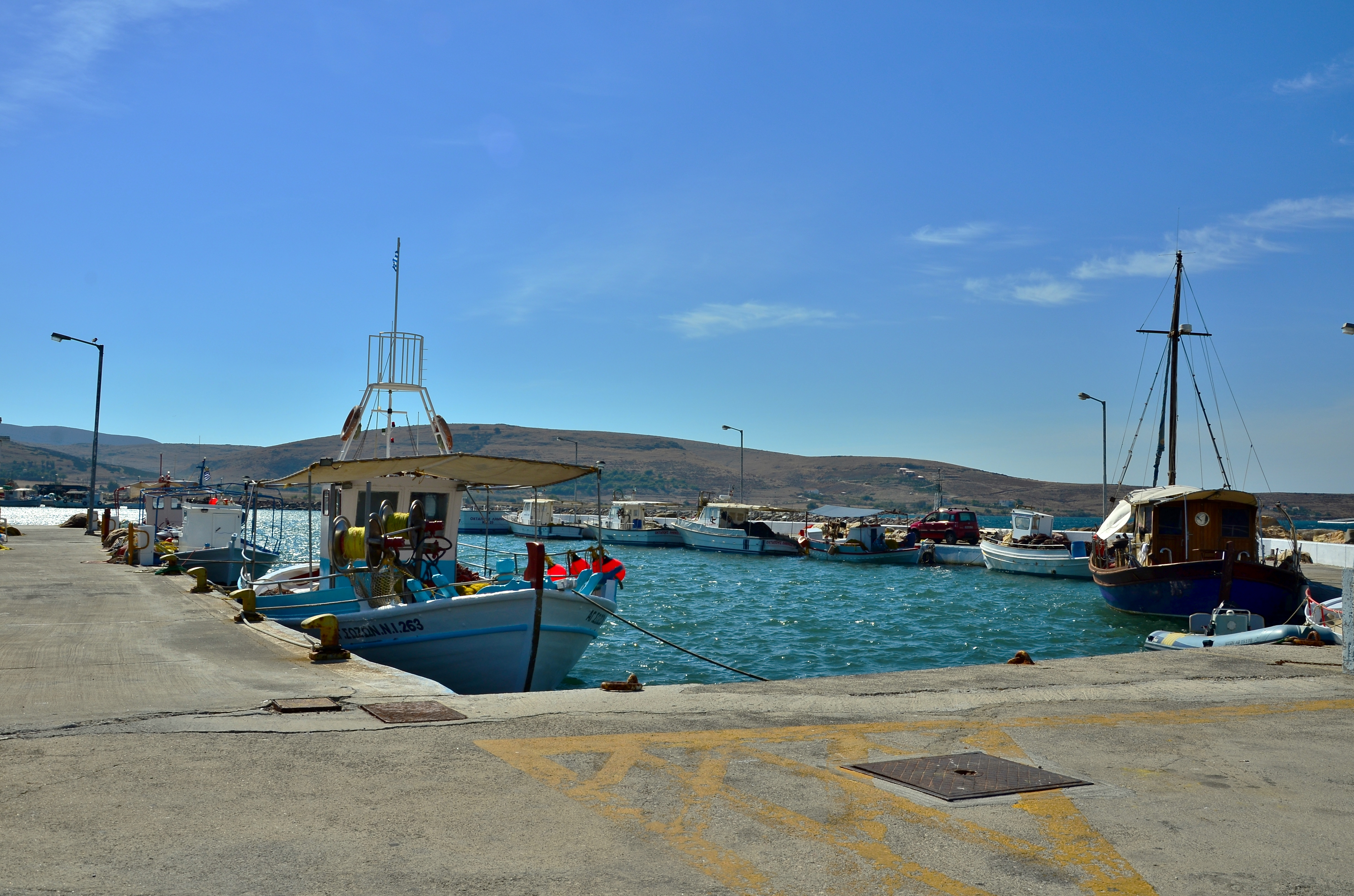 Harbor in Moudros, Lemnosm Greece